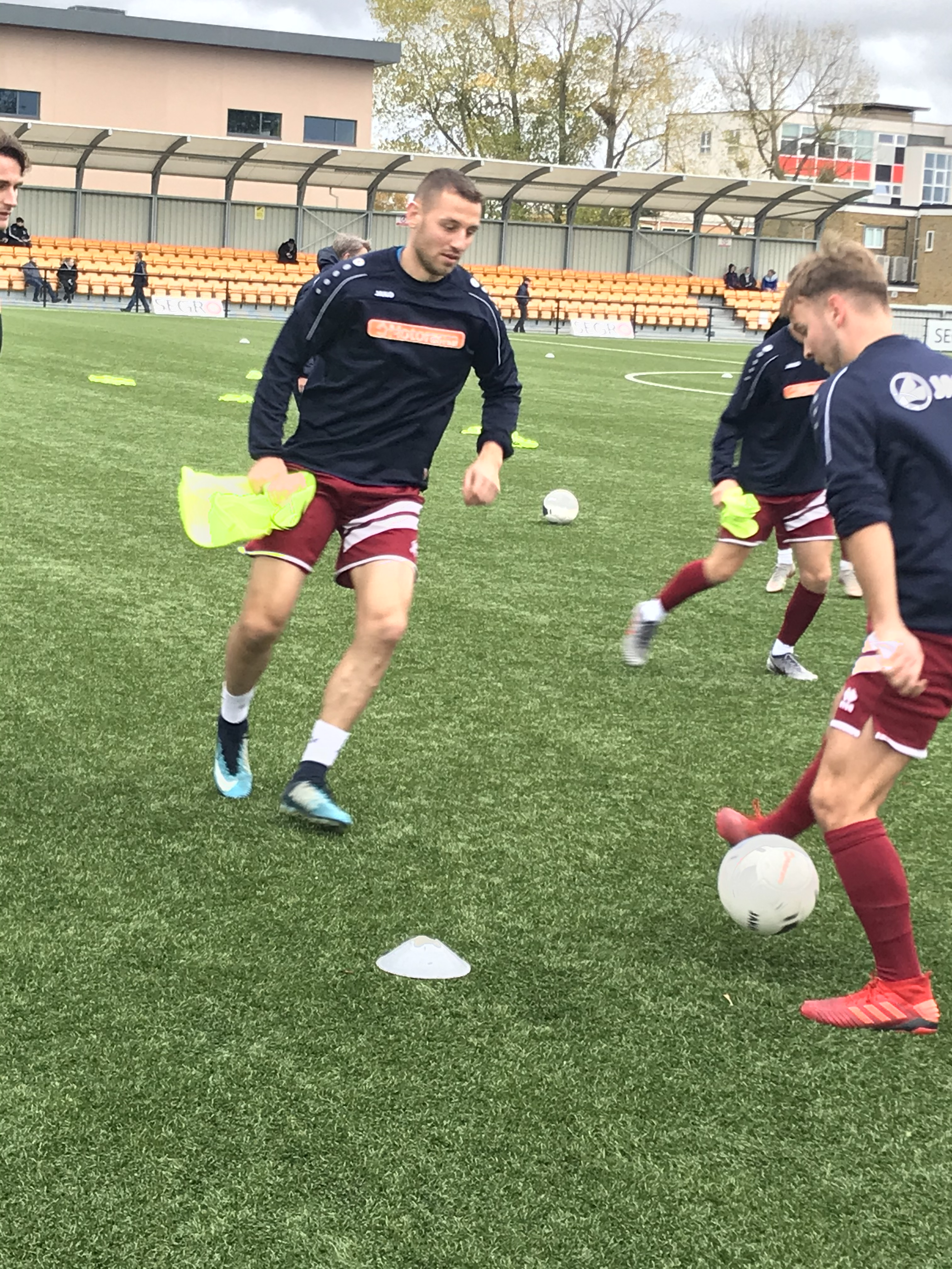 Adrian Cașcaval warming up for Chelmsford City, November 2019.